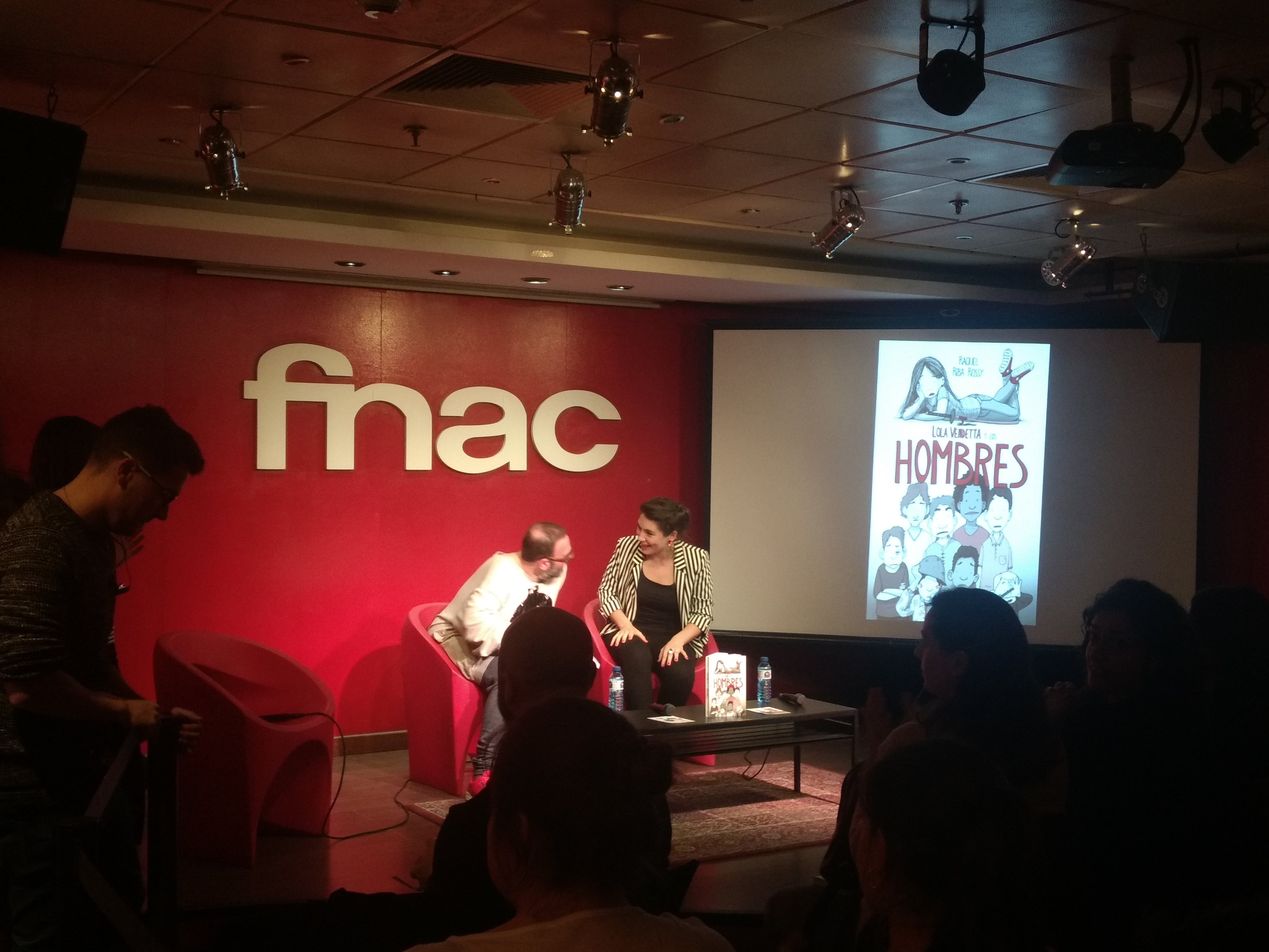 Presentation of the book "Lola Vendetta y los hombres"